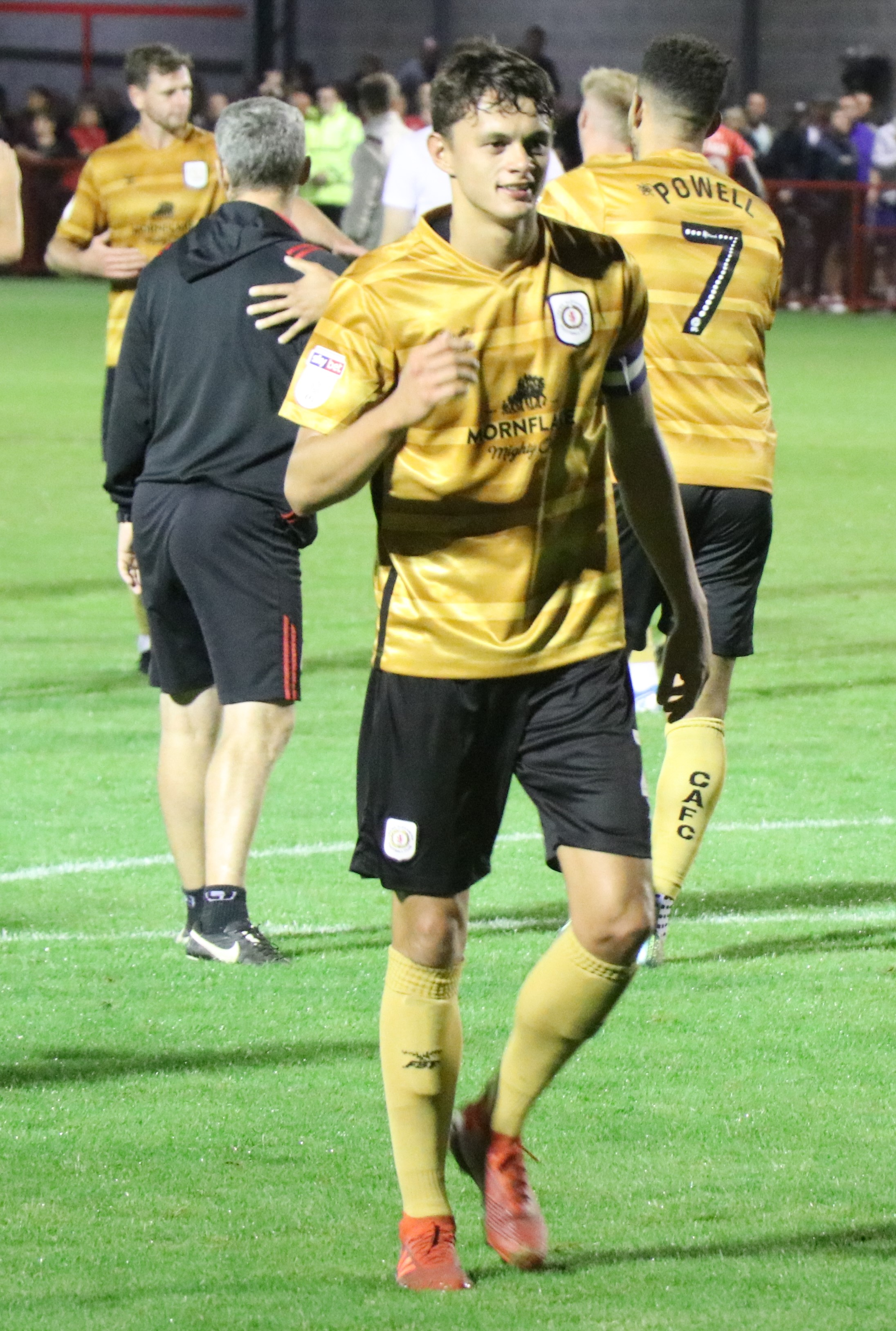 footballer Perry Ng, playing for Crewe Alexandra at Crawley Town